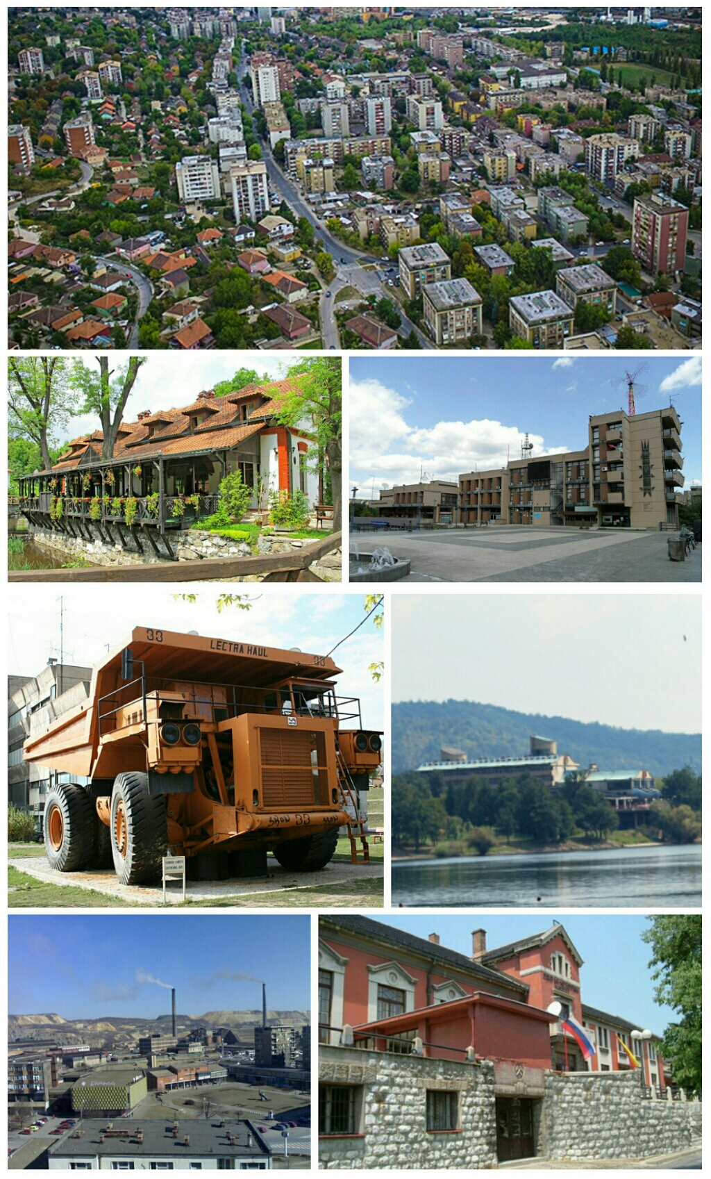 Bor- photomontage (Panorama of Bor, Brestovac Spa, Cultural center, Dumper in Park Museum, Hotel near Bor Lake, View on Mining and Smelting Basin Bor, Technical faculty)